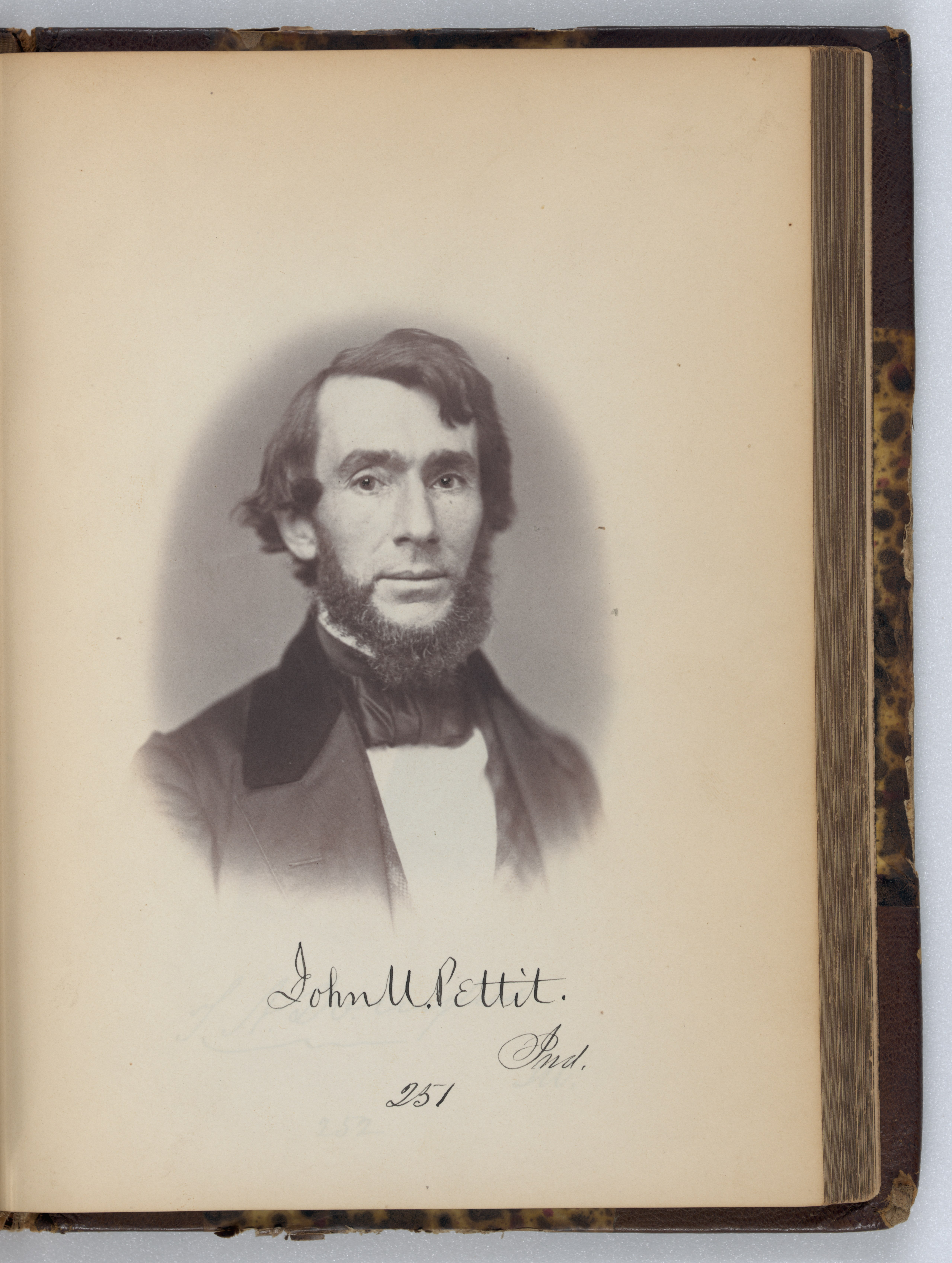 Title: John U. Pettit, Representative from Indiana, Thirty-fifth Congress, half-length portrait Abstract/medium: 1 photographic print : salted paper ; 19.7 x 14.3 cm.